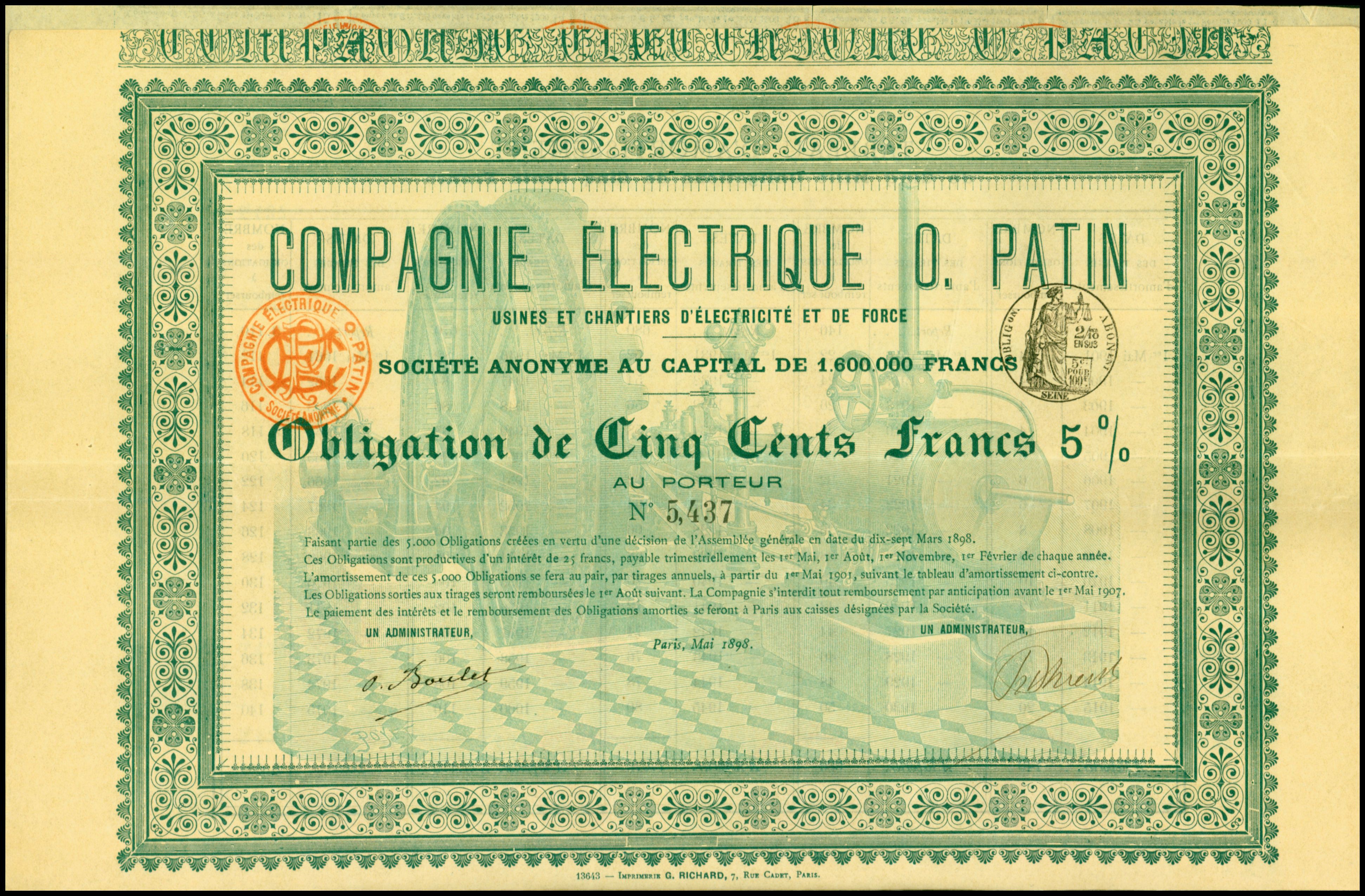 Bond of the Compangie Électrique O. Patin, issued May 1898